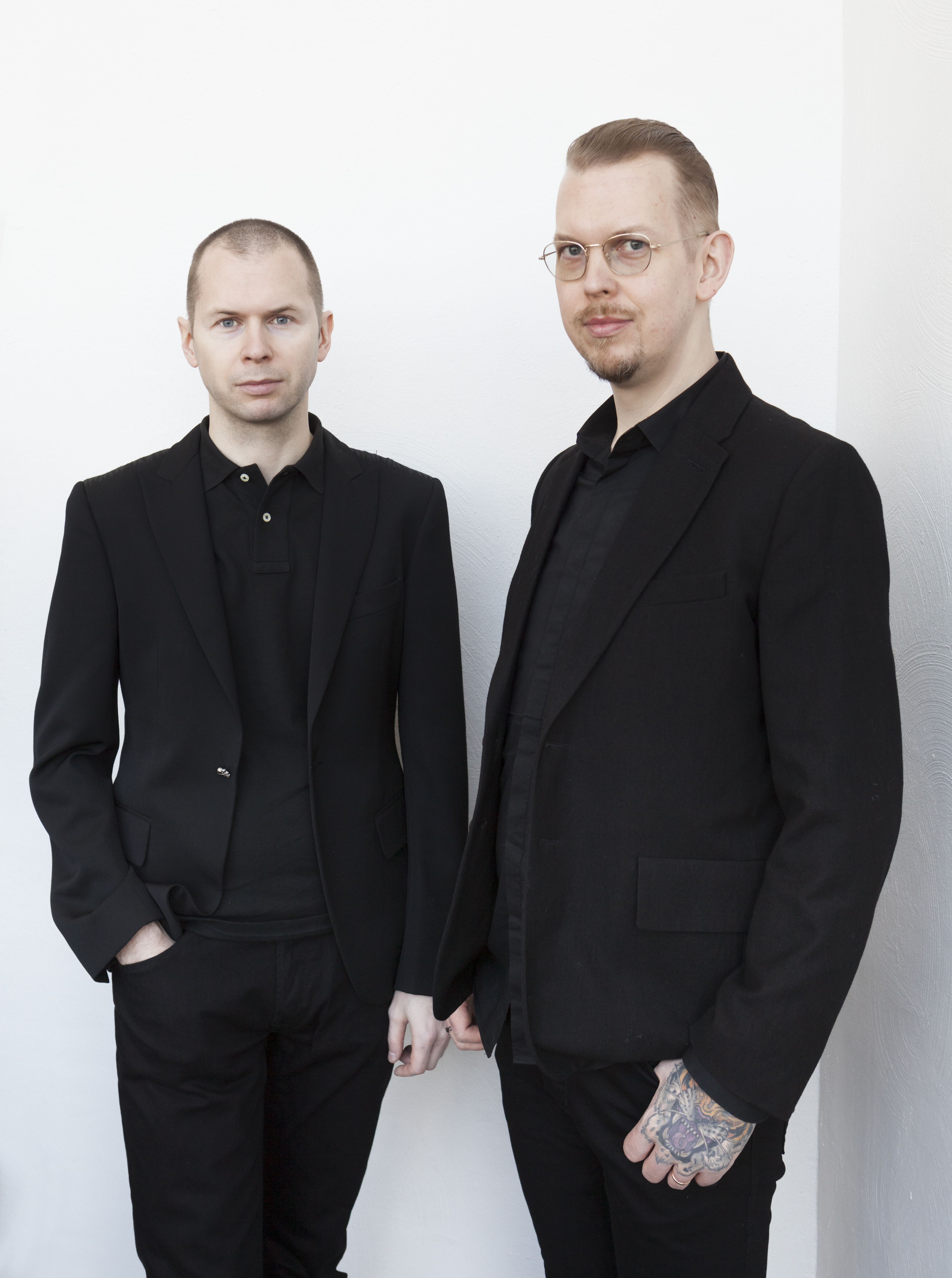 Artists_Pink_Twins_in_Kiasma PHOTO Finnish National Gallery /Pirje Mykkänen